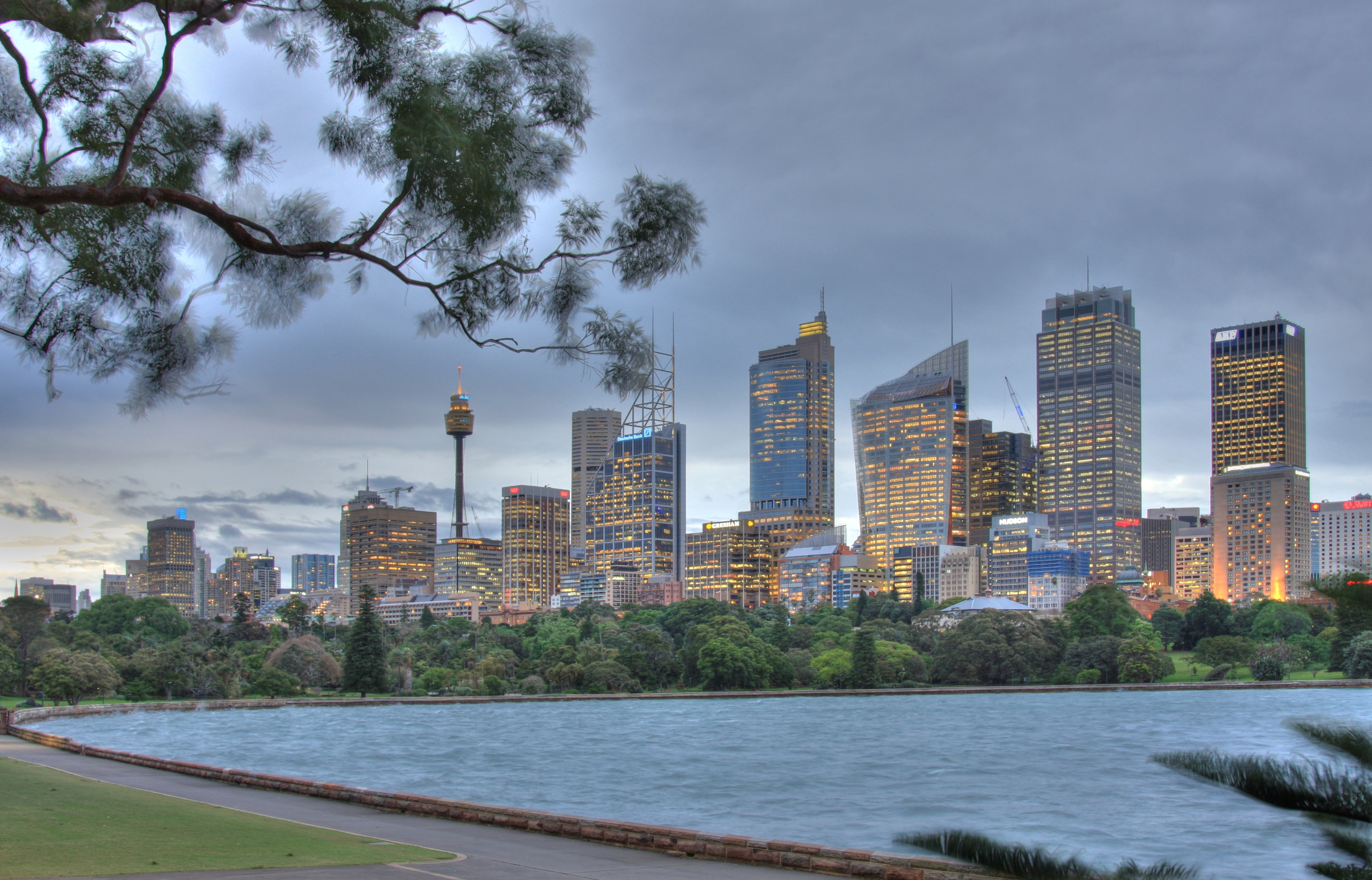 City of Sydney during sunset from the Domain